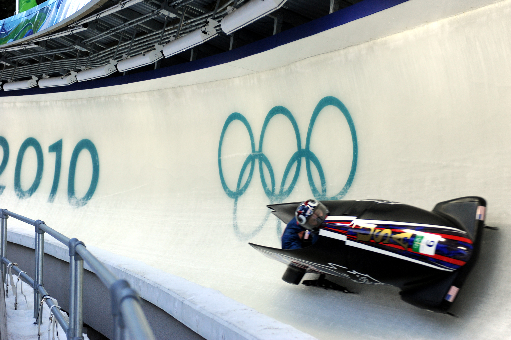 Bobsled pilot Steven Holcomb posts the sixth-fastest time of 51.89 seconds with Curt Tomasevicz aboard USA I in the first heat of the two-man bobsled competition Saturday at Whistler Sliding Center in British Columbia during the 2010 Winter Olympics.